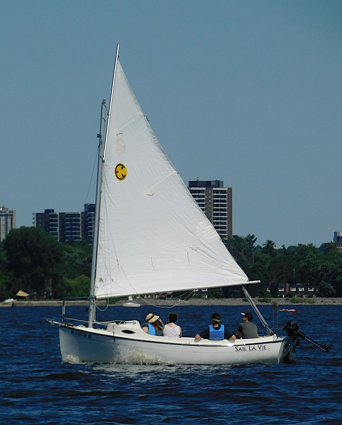 A Com-Pac Sunday Cat sailboat named Sail La Vie.